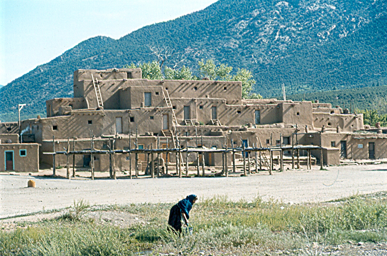 Taos Pueblo in 1982